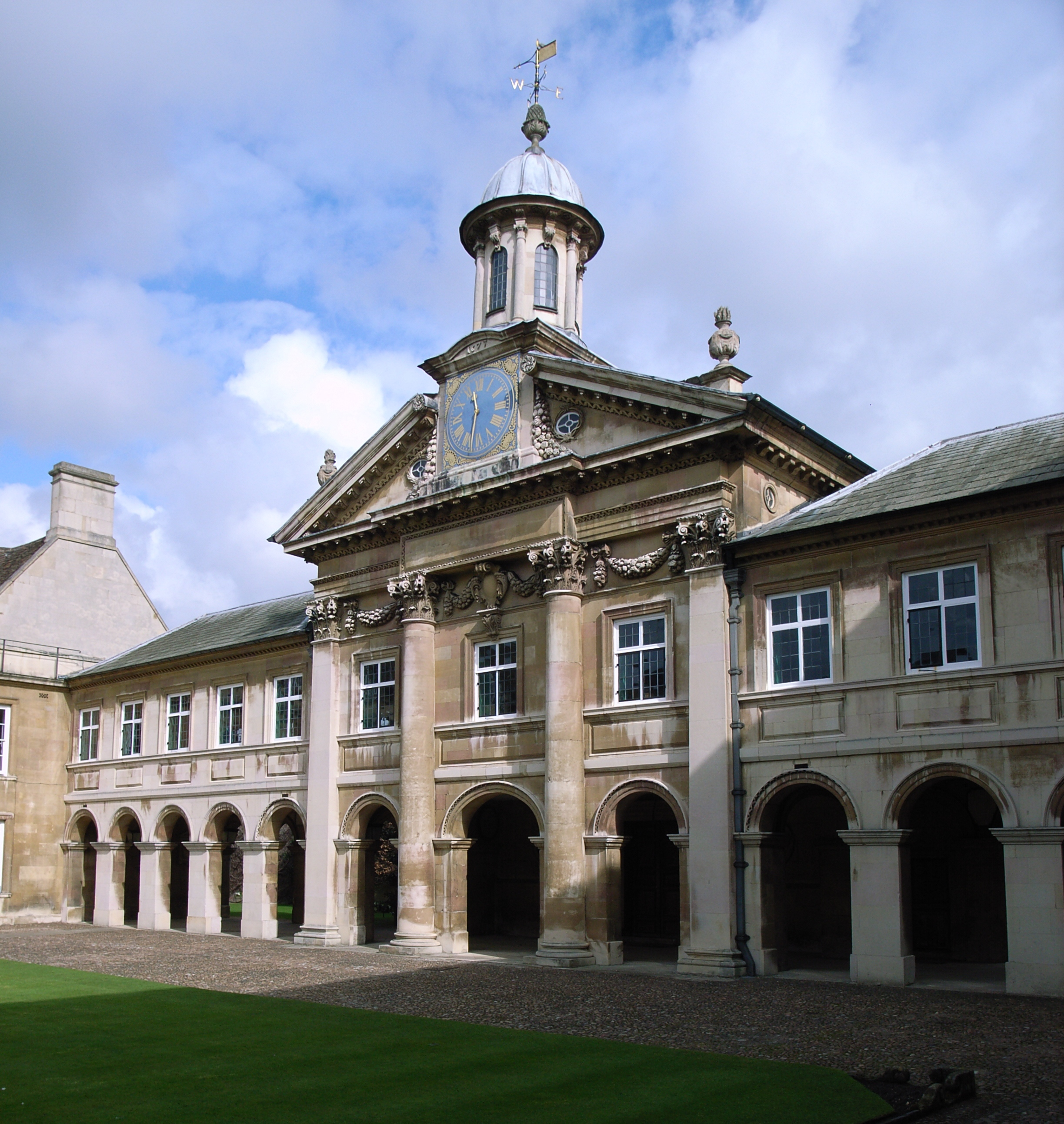 Front Court of Emmanuel College, Cambridge, with the Chapel designed in 1663 by Christopher Wren